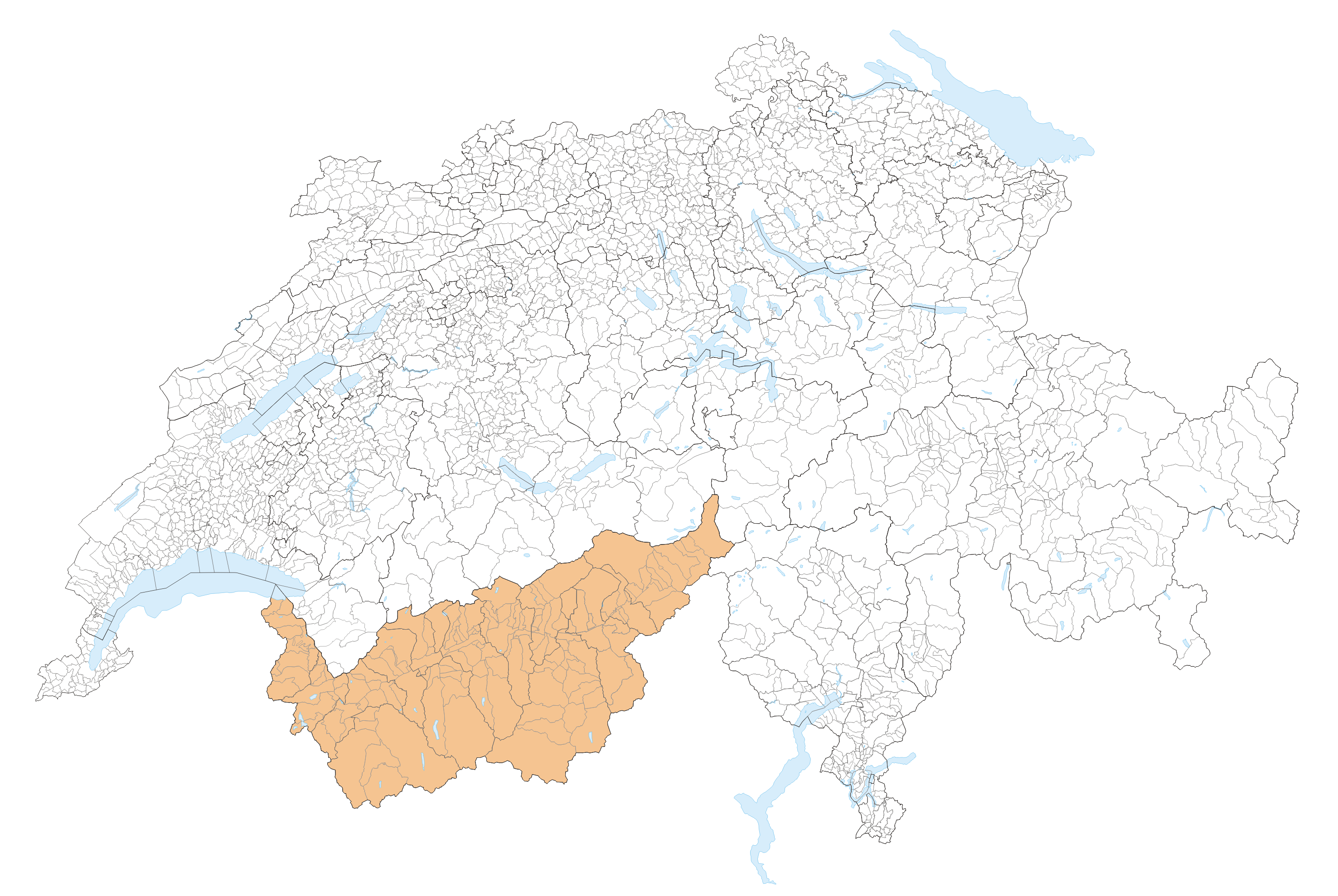 Kanton Wallis